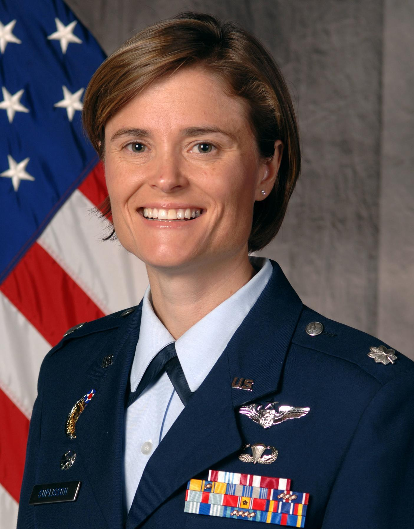 US Air Force Academy (USAFA) Instructor Lt Col Angela Wallace Suplisson